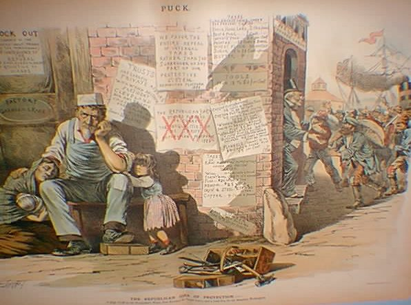 "The Republican Idea Of Protection - A High Tariff on the Monopolist's Wares, Free Entrance for Pauper Labor, and a Lock-Out for the American Workingman" -- Puck Magazine (English edition) Oct 3, 1888 cartoon regarding immigration. Copy in "Samuel Halperin Puck and Judge cartoon collection, 1879-1903" at George Washington U. Library, Guide to the Samuel Halperin Puck and Judge cartoon collection, 1879-1903: Collection number MS2121, box 11, folder 10.